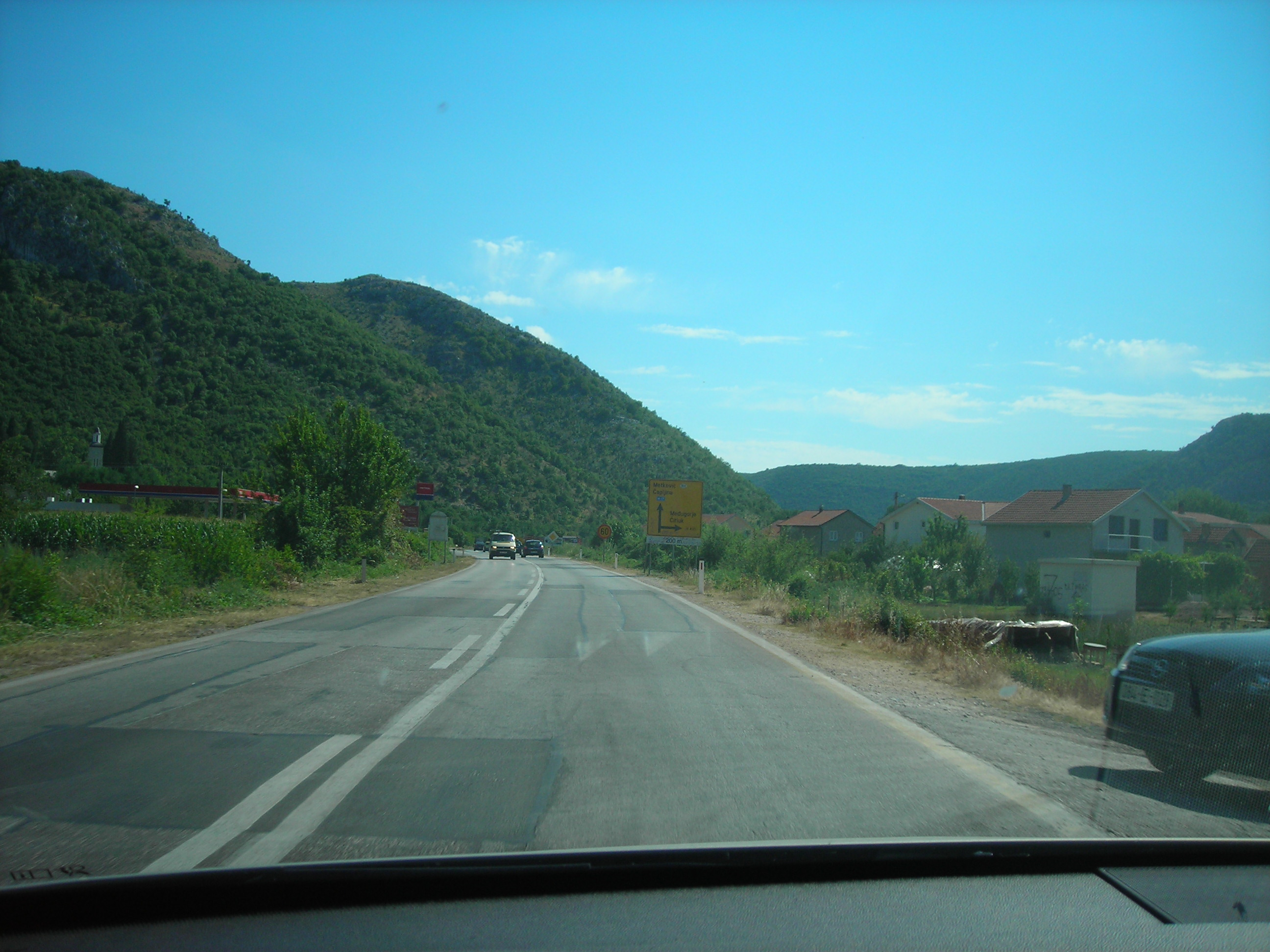 Road M17/E73 south of Mostar, Bosnia-Herzegovina